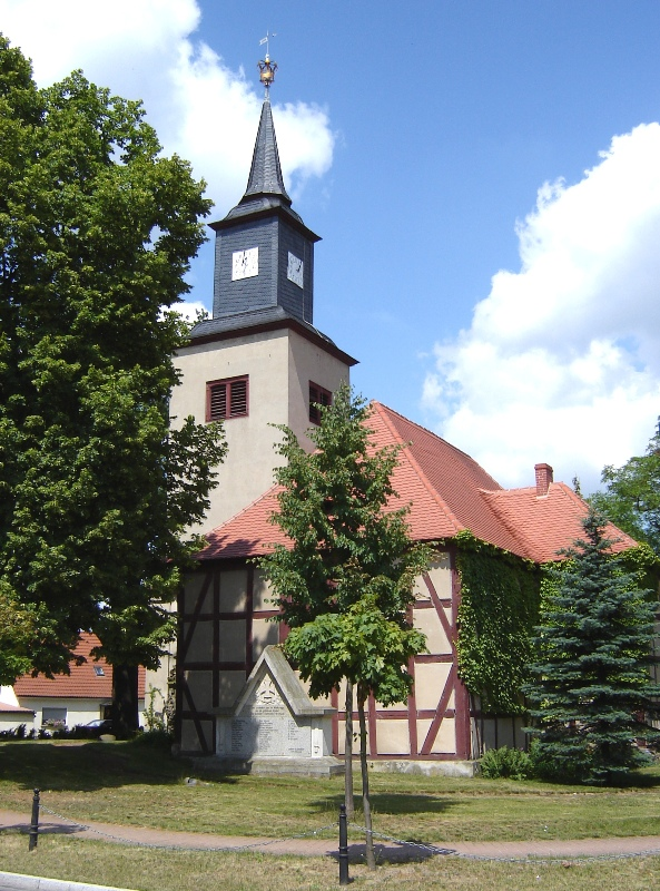 Protestant church of Ferchland, Saxony-Anhalt